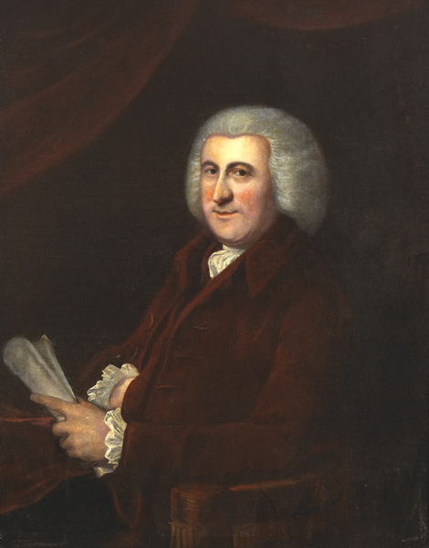 Portrait of the 1st president of Royal College of Surgeons, Samuel Croker-King (1728-1817)